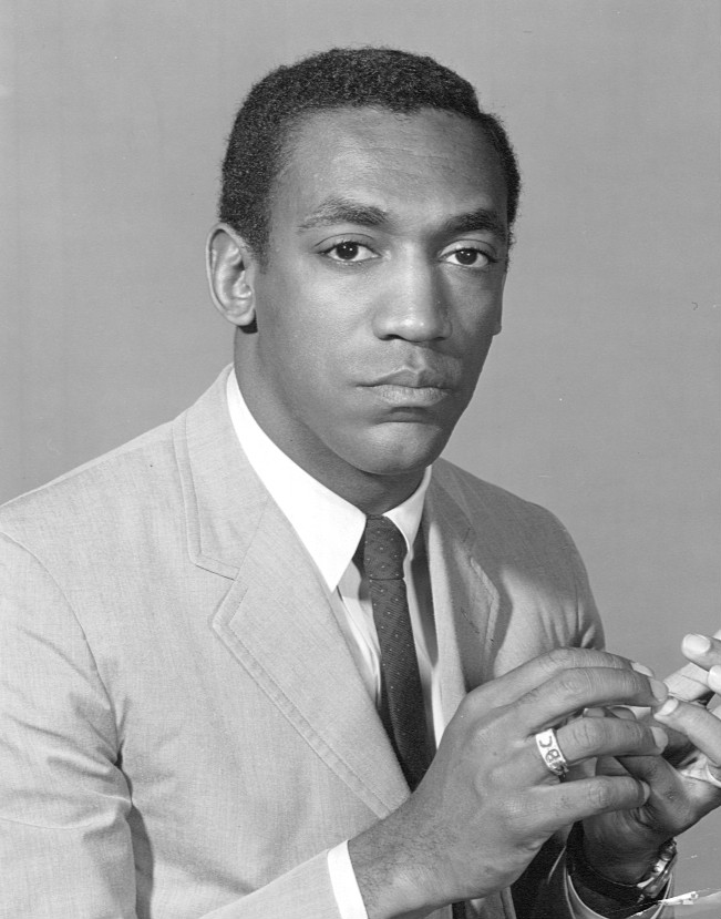 Photo of Bill Cosby as Alexander Scott from the television series I Spy. The item has no copyright markings on it as can be seen in the links above.